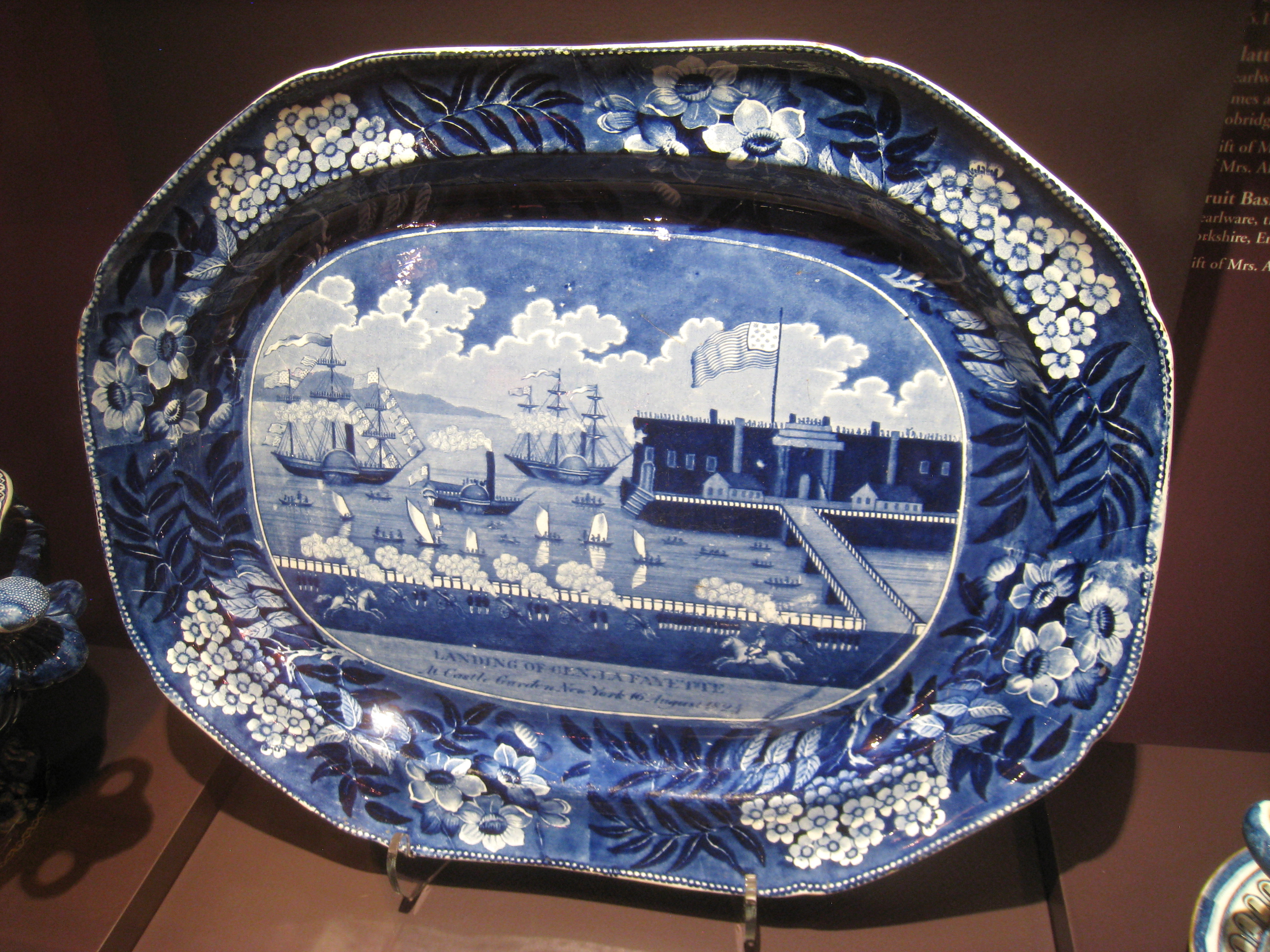 Platter, pearlware with transfer-printed decorations; James and Ralph Clews, Cobridge, Staffordshire, circa 1825. Inscription: "Landing of General Lafayette at Castle Garden, New York 16 August 1824". Pottery exhibited in the DAR Museum, National Society Daughters of the American Revolution, 1776 D Street NW, Washington, DC, USA.